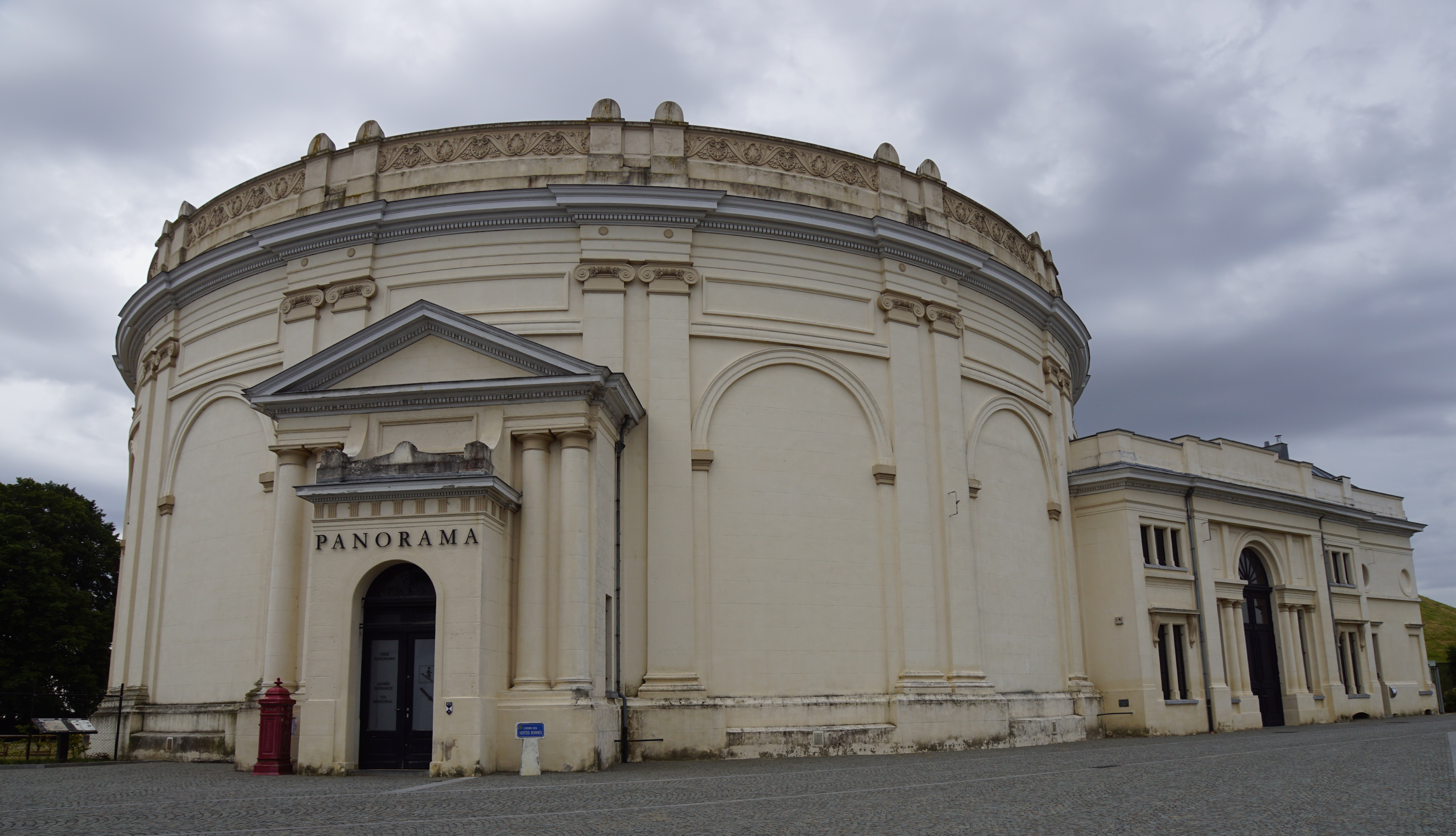 Panorama of the Battle of Waterloo (1915).